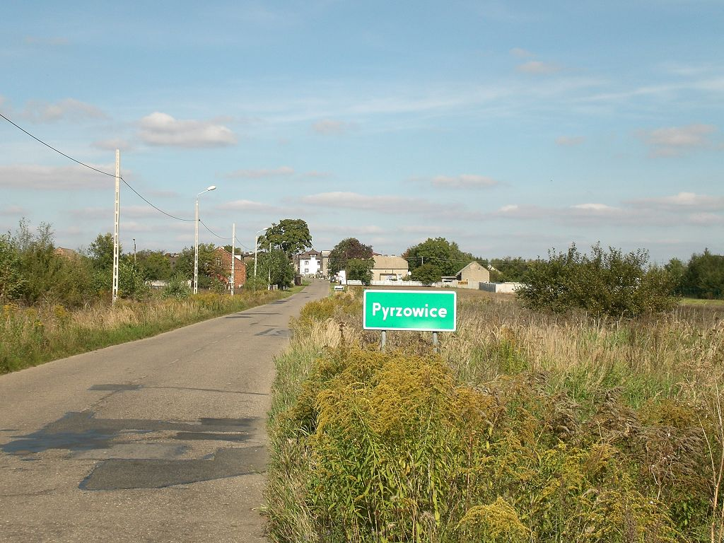 View on Pyrzowice from Droga Wojewódzka 913